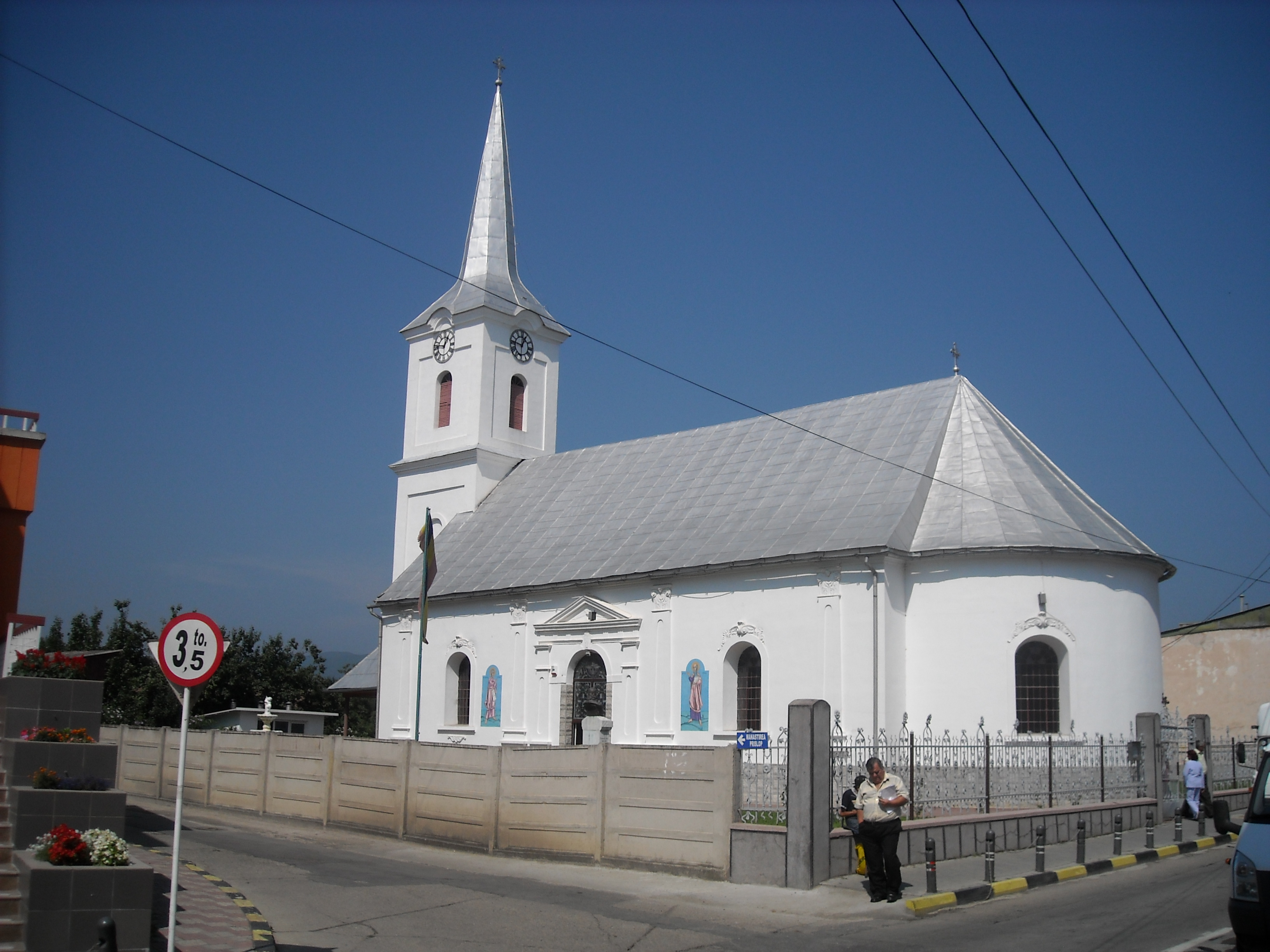 the Saint Nicholas orthodox church in Haţeg